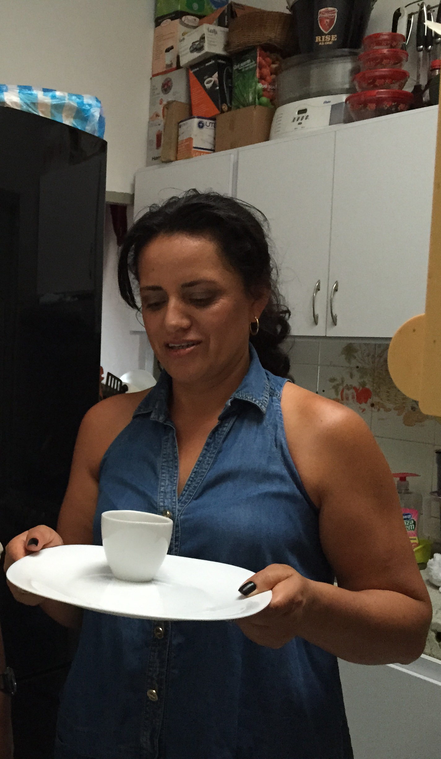 Caficultora Colombiana